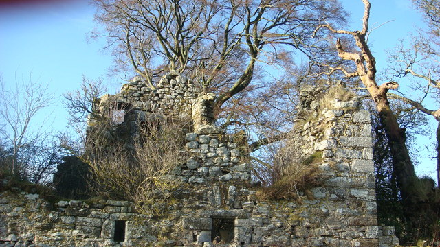 Brunstane Castle Extensive remains of large 16th century castle, now in poor condition.